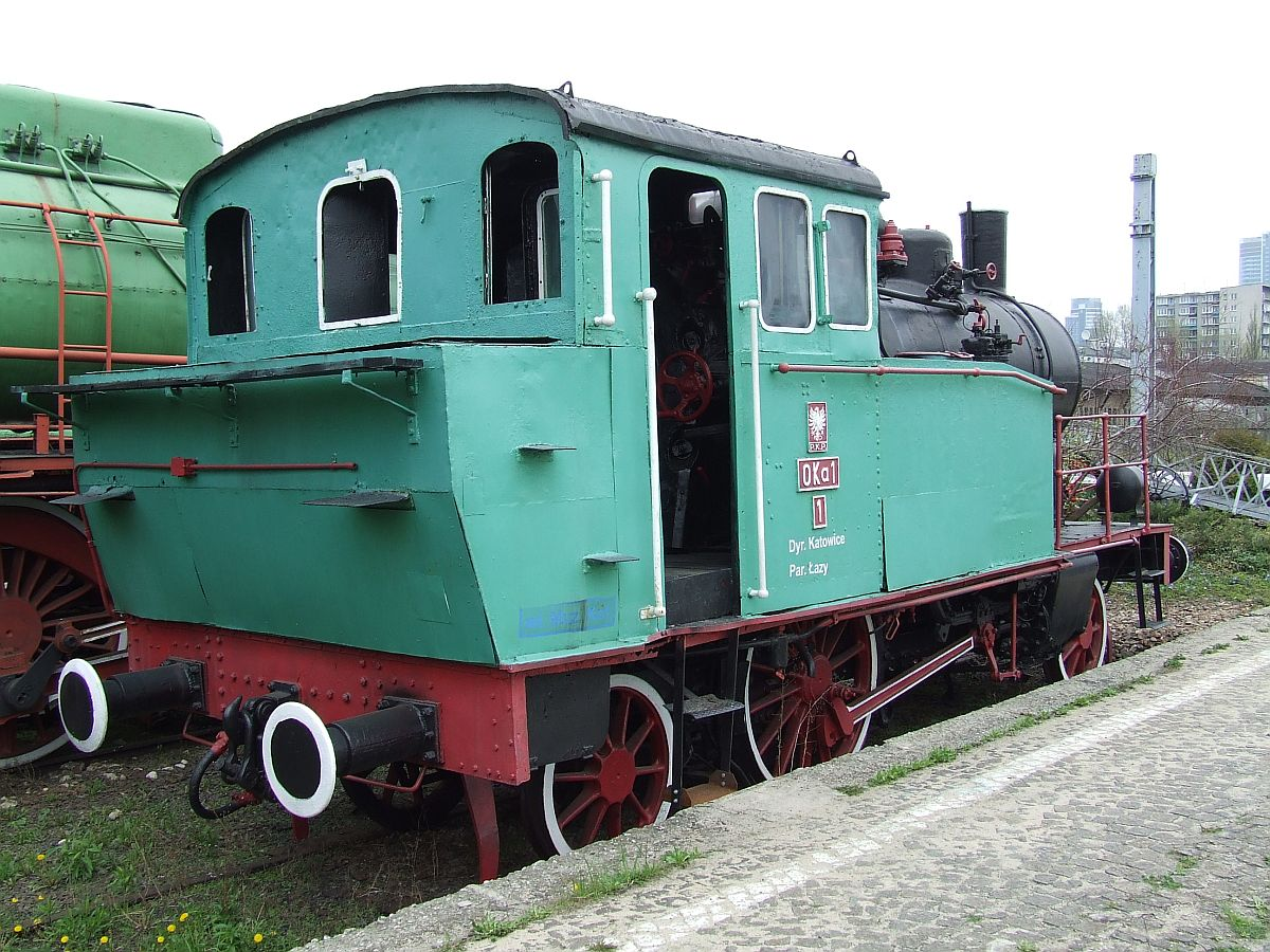 Polish OKa1-1 steam locomotive (fomer Latvian Tk 235, built by Krupp, 1931)